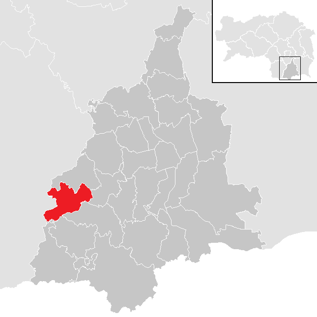 District Leibnitz